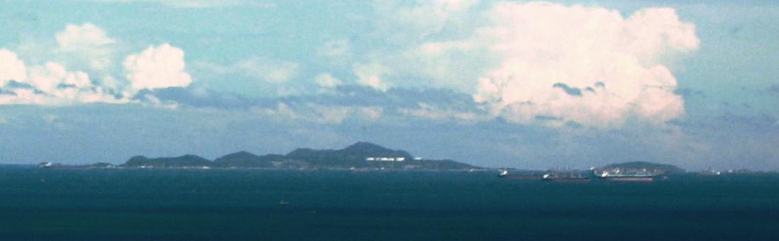 Ko Sichang group